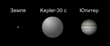 Comparative sizes of Earth, Kepler-30 c and Jupiter.